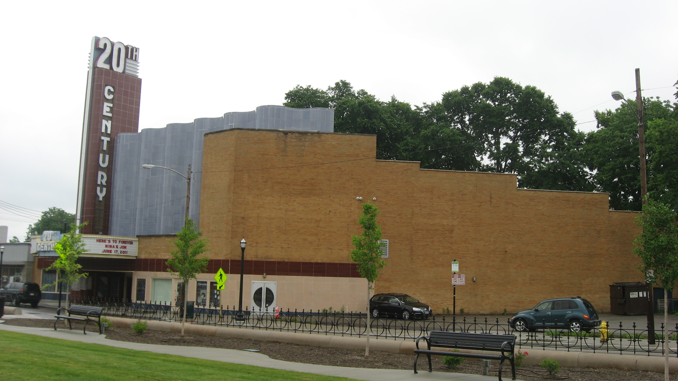 Wastern side of the Twentieth Century Theatre, located at 3023-3025 Madison Road in Cincinnati, Ohio, United States. Built in 1941, it is listed on the National Register of Historic Places.